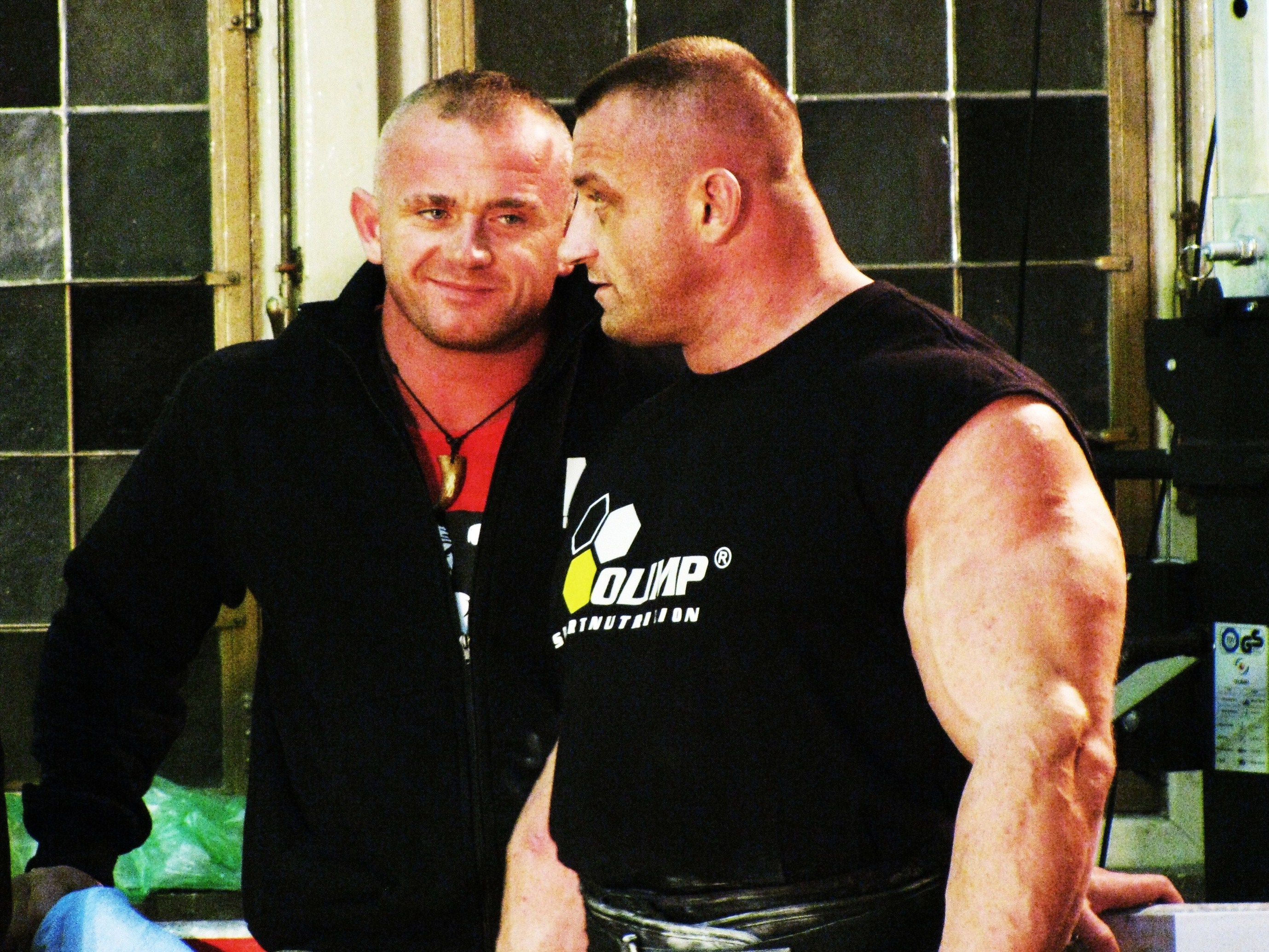 Mariusz Pudzianowski with his younger brother Krystian Pudzianowski.